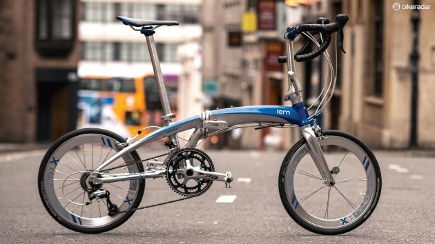 A Tern BXR made of Aluminum